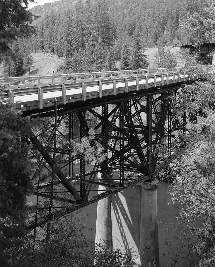 Scenic Bridge, Spanning Clark Fork at Old Highway 10, Tarkio vicinity (Mineral County, Montana) cropped This image or media file contains material based on a work of a National Park Service employee, created as part of that person's official duties. As a work of the U.S. federal government, such work is in the public domain in the United States. See the NPS website and NPS copyright policy for more information. Creator: U.S. Department of the Interior, National Park Service, Historic American Engineering Record. Survey number HAER MT-122-7 Source: U.S. Library of Congress, Prints and Photographs Division, "Built in America" Collection. Copyright: "The original measured drawings and most of the photographs and data pages in HABS/HAER/HALS were created for the U.S. Government and are considered to be in the public domain." Object location47° 01′ 12.33″ N, 114° 39′ 26.77″ W